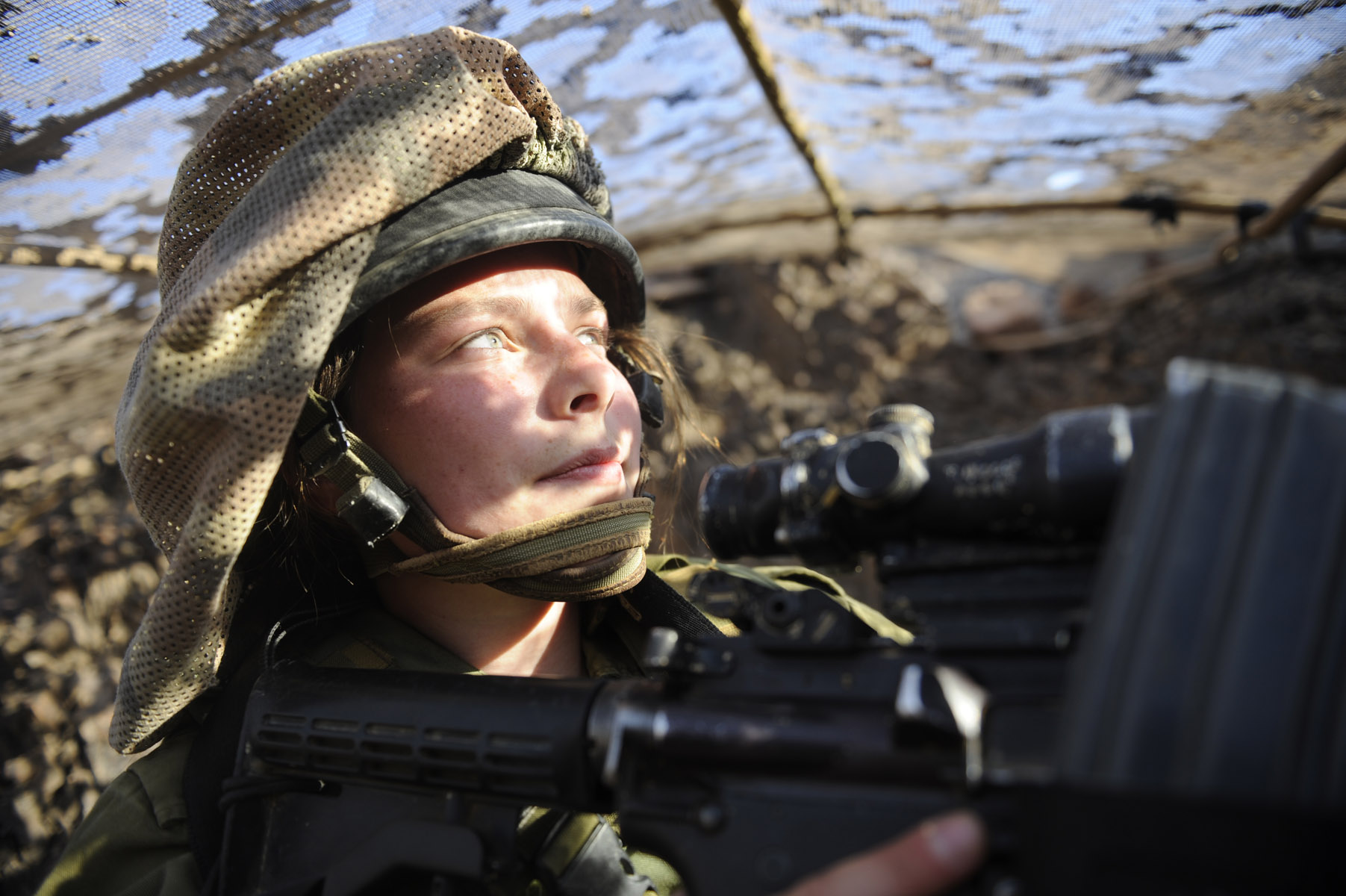 November 2011 Female combat soldiers of the field intelligence company "Nachshol" are stationed along the southern Israeli border. Due to the increased tension in the area, a unique exercise was conducted in the beginning of November, practicing clashes with terrorists, storming at targets, and high-level camouflage, while confronted with mock explosives simulating real bombs. Click here to take a look into the life of female field intelligence combat soldiers The Israel Defense Forces Facebook page The Israel Defense Forces blog Follow us on Twitter